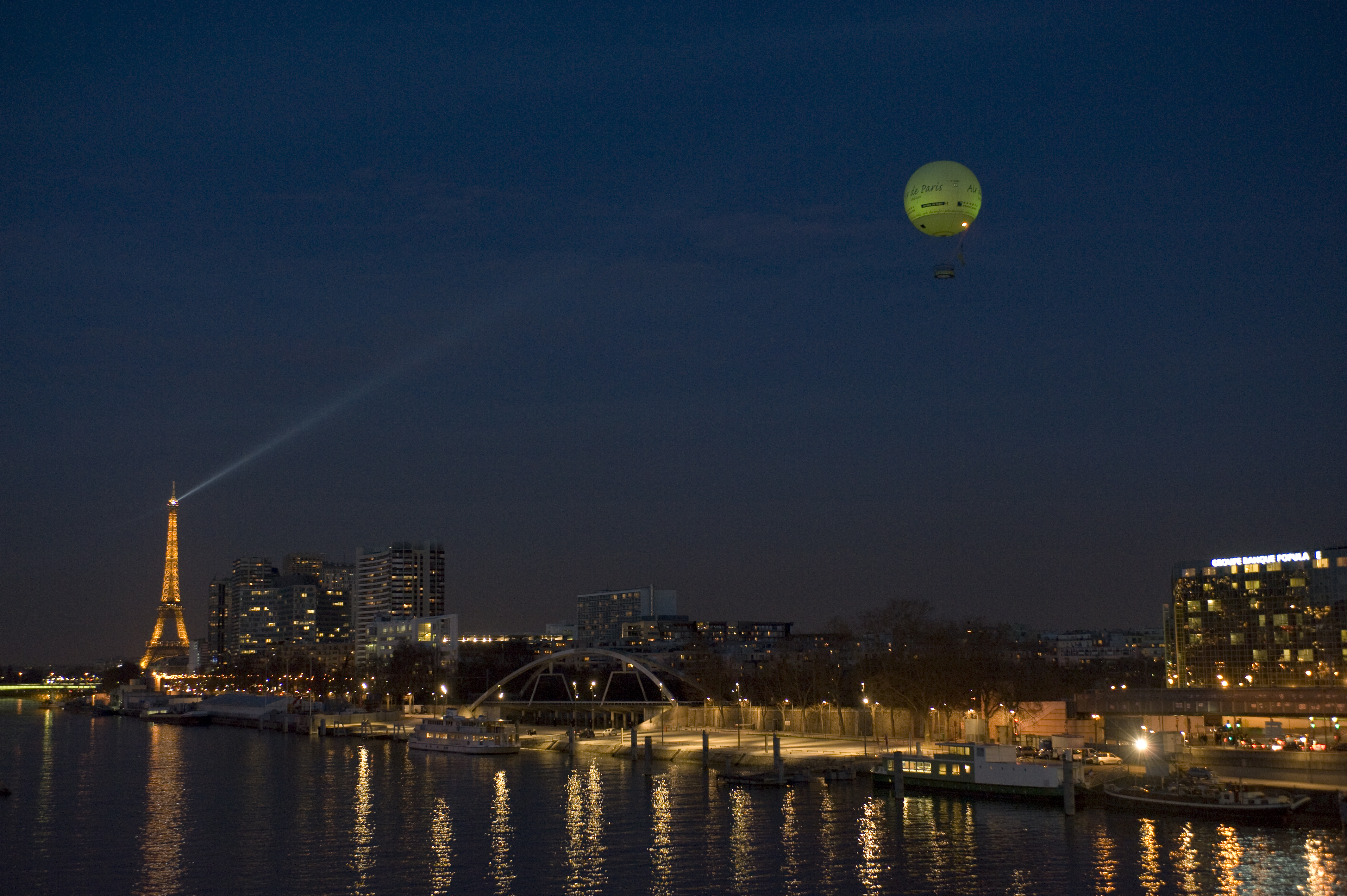 the "ballon de Paris" by night